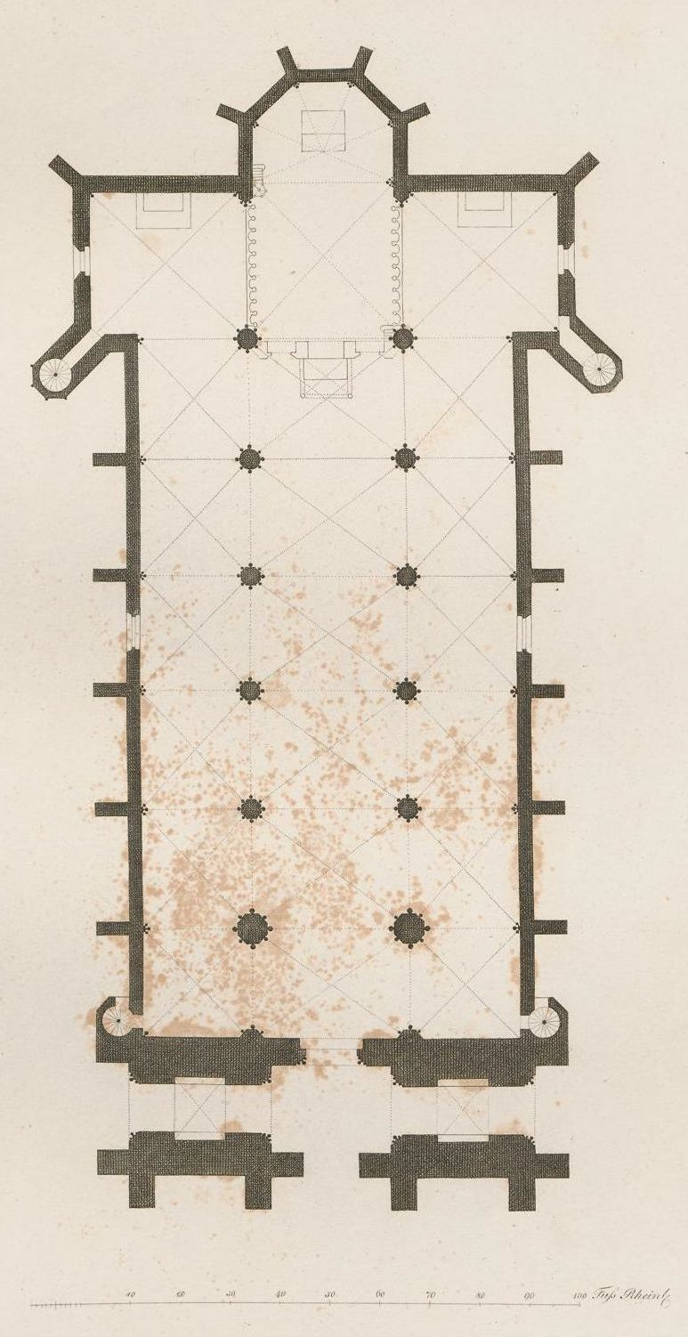 Floor plan of Friedberg city church.